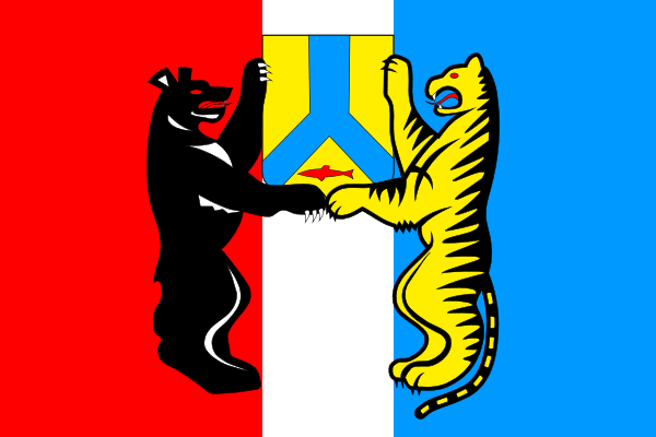 Flag of Khabarovsk, Khabarovsk Territory, Russia